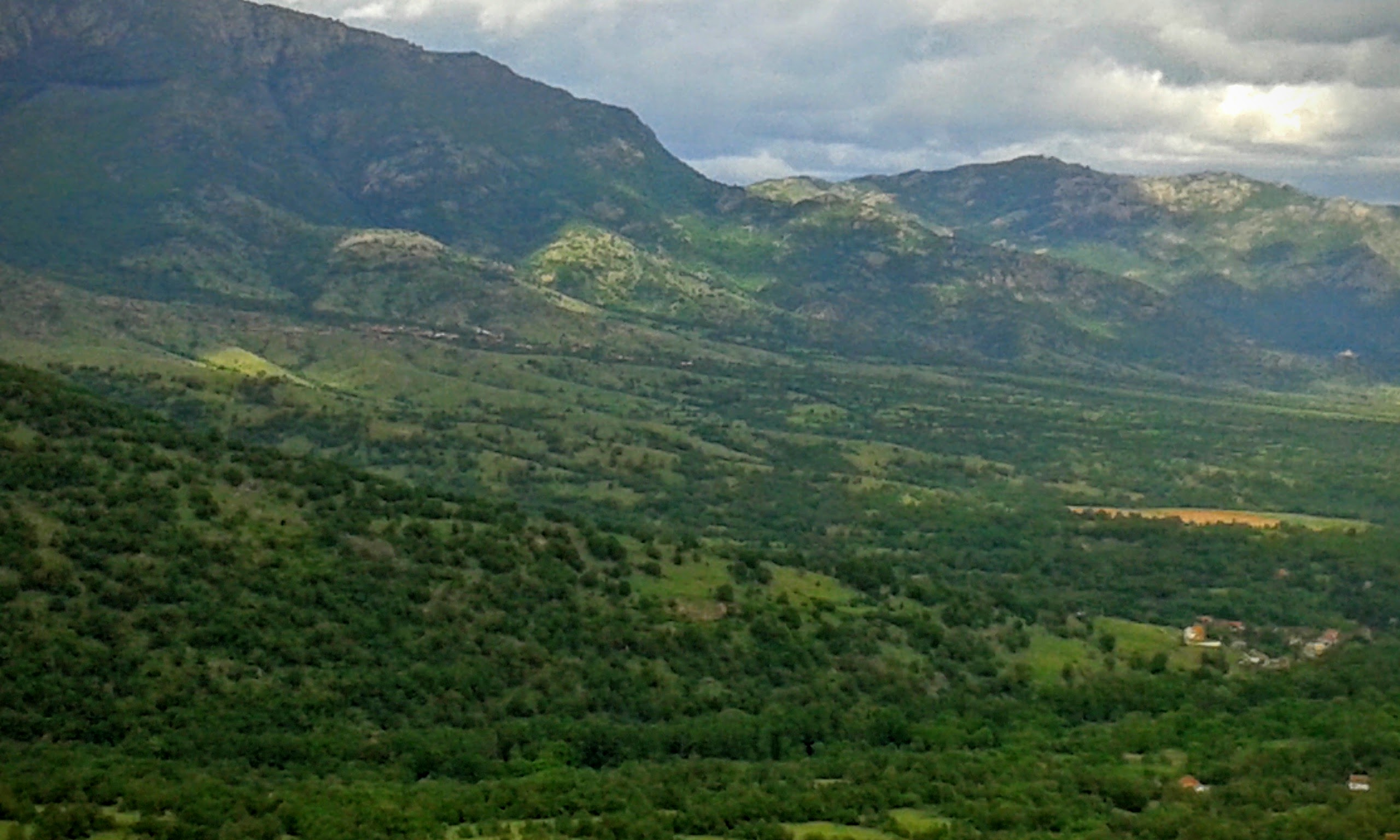 View of the village Bistrica